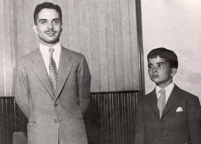 King Al-Hussein with his youngest brother, El Hassan